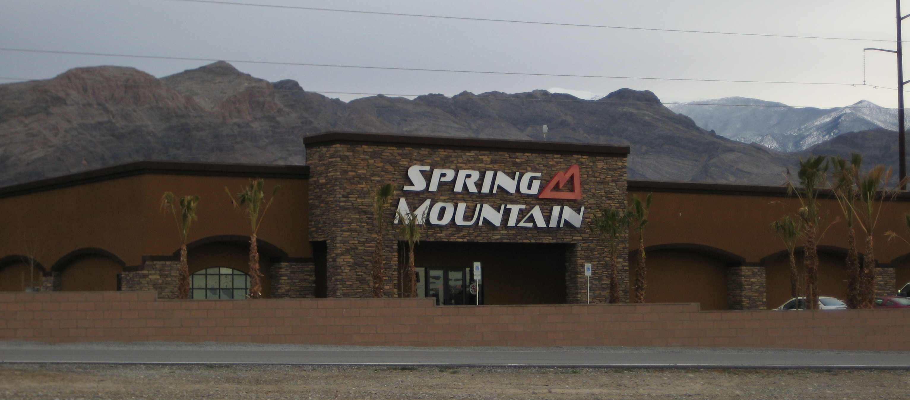 Offices of Spring Mountain Motorsports in Pahrump, NV, US.